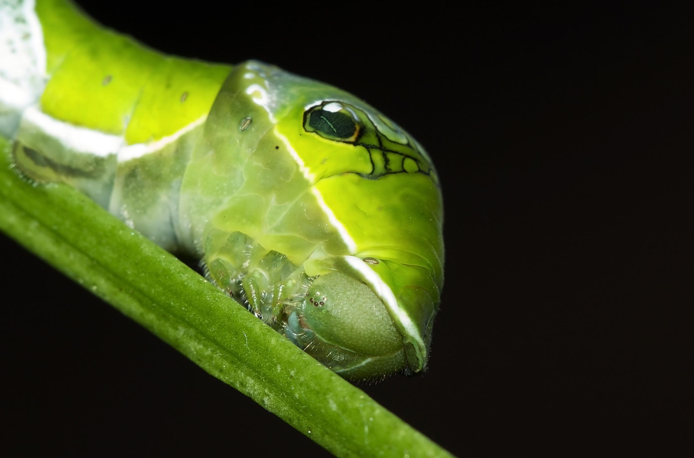 Papilio bianor caterpillar, Chemnitz Botanical Garden, Germany